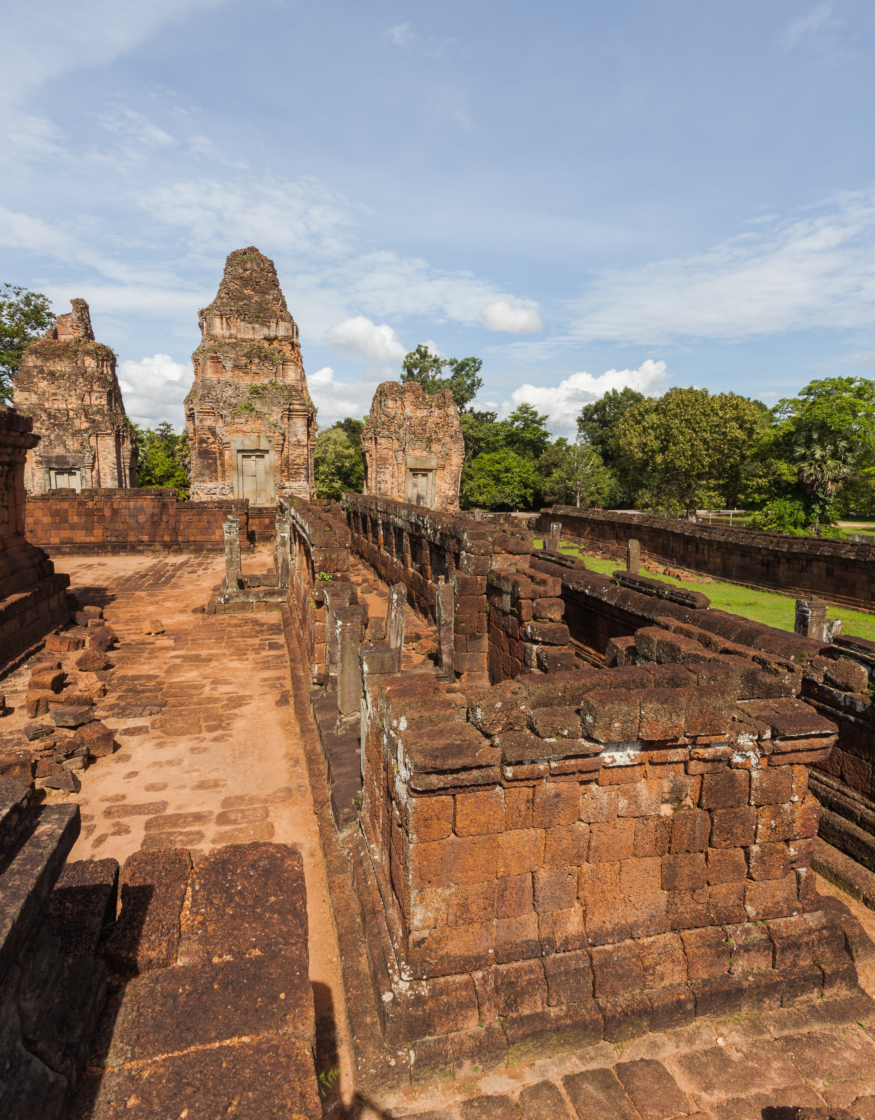 Pre Rup, Angkor, Cambodia